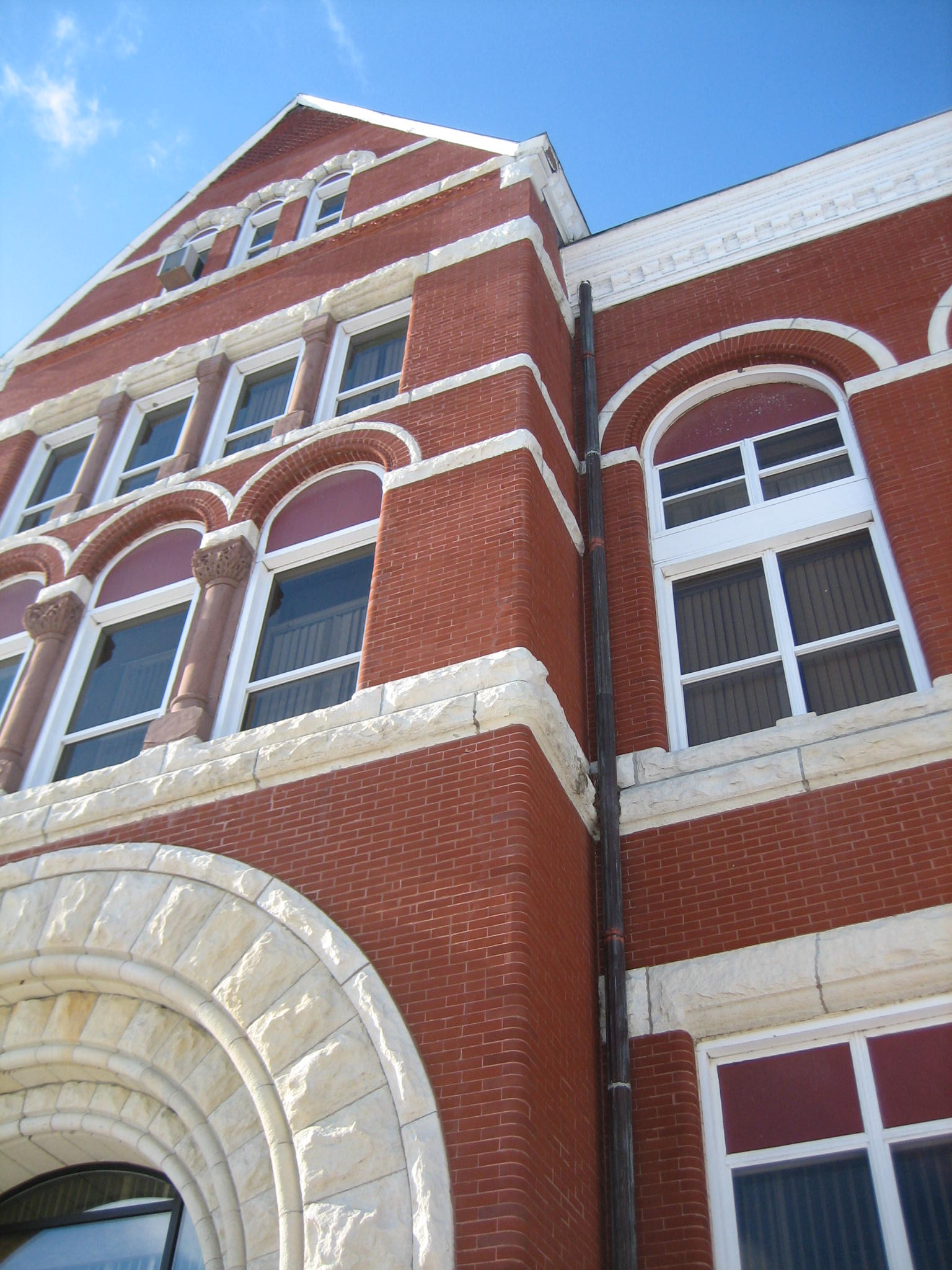 Old Ogle County Courthouse, Oregon, Illinois. National Register of Historic Places.